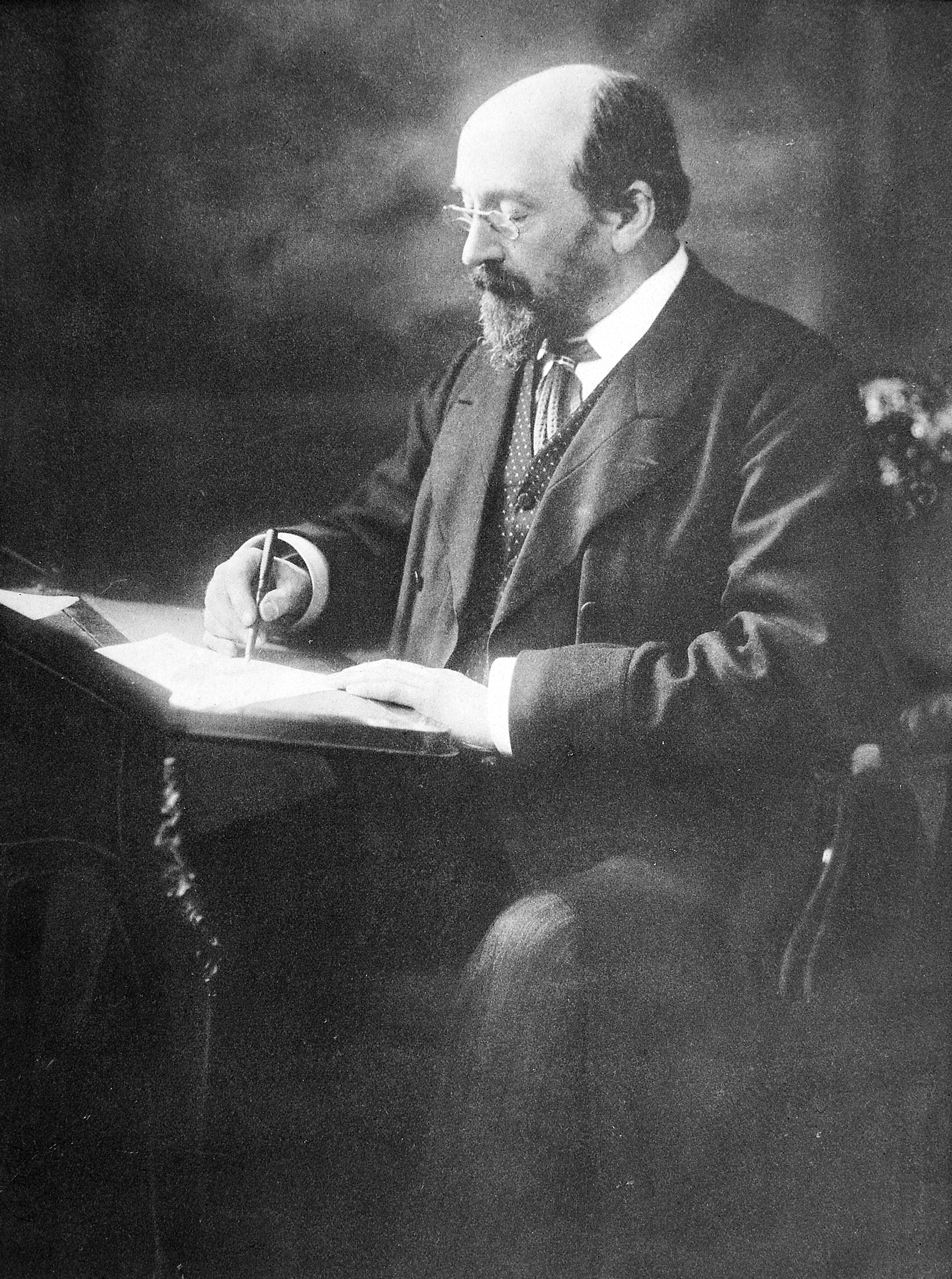 Sir William Whitla Wellcome Images Keywords: William Whitla